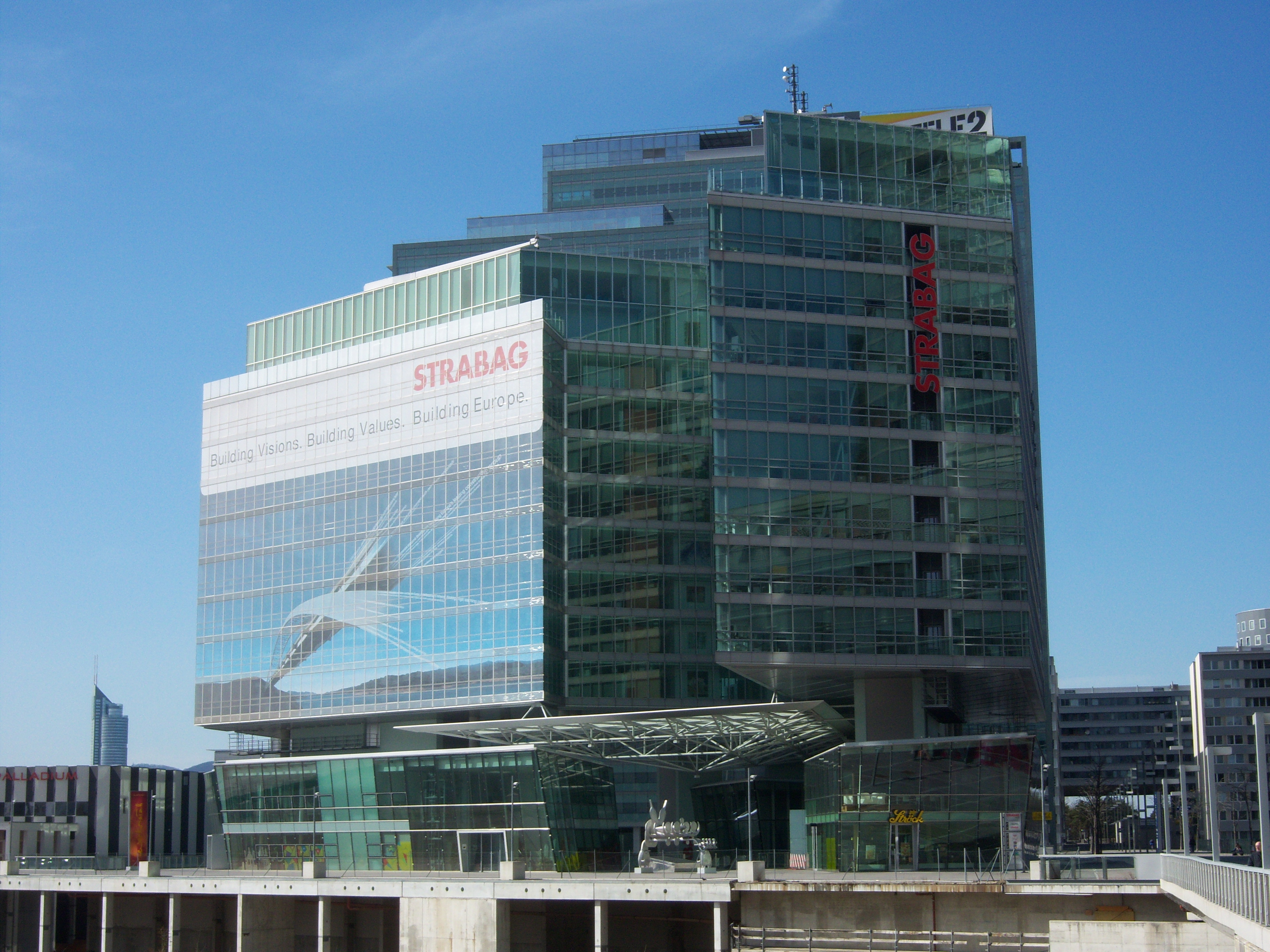 STRABAG Office